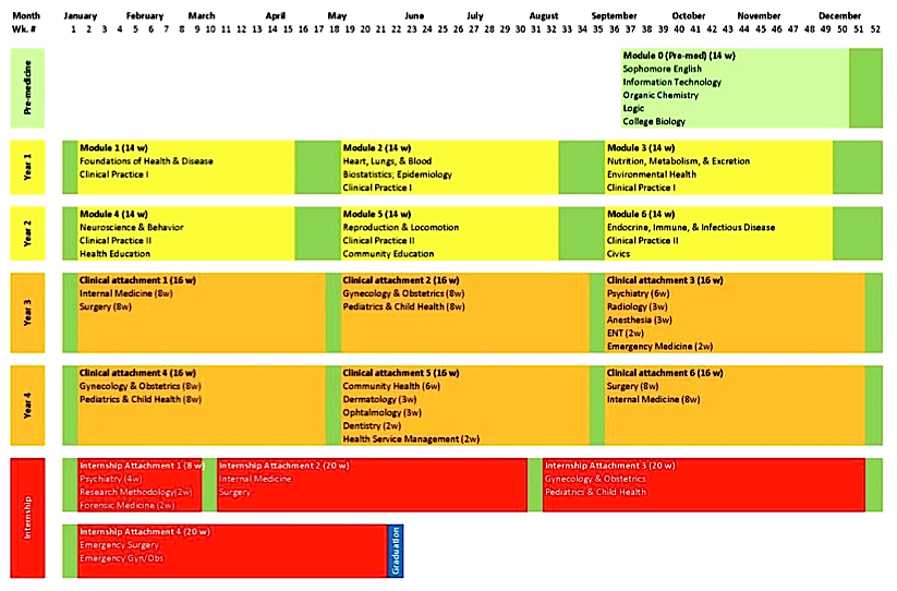 MD Program Curriculum